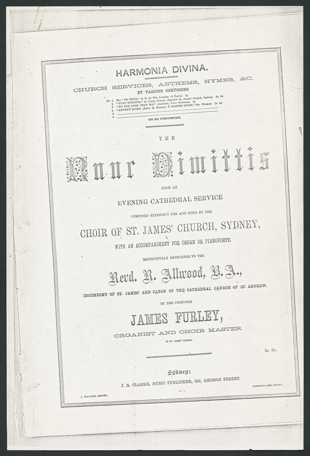 Cover page of "Nunc dimittis" [music] by James Furley, organist and choir master of St. James' Church, Sydney